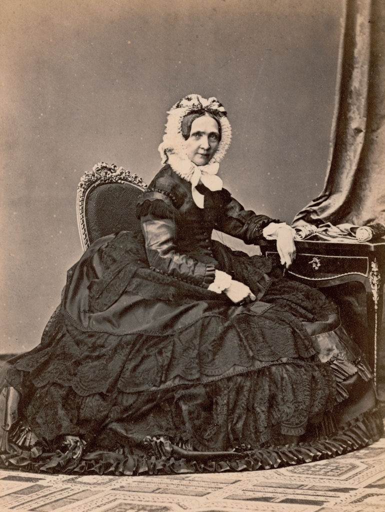 Princess Sophie of Bavaria, Archduccess of Austria